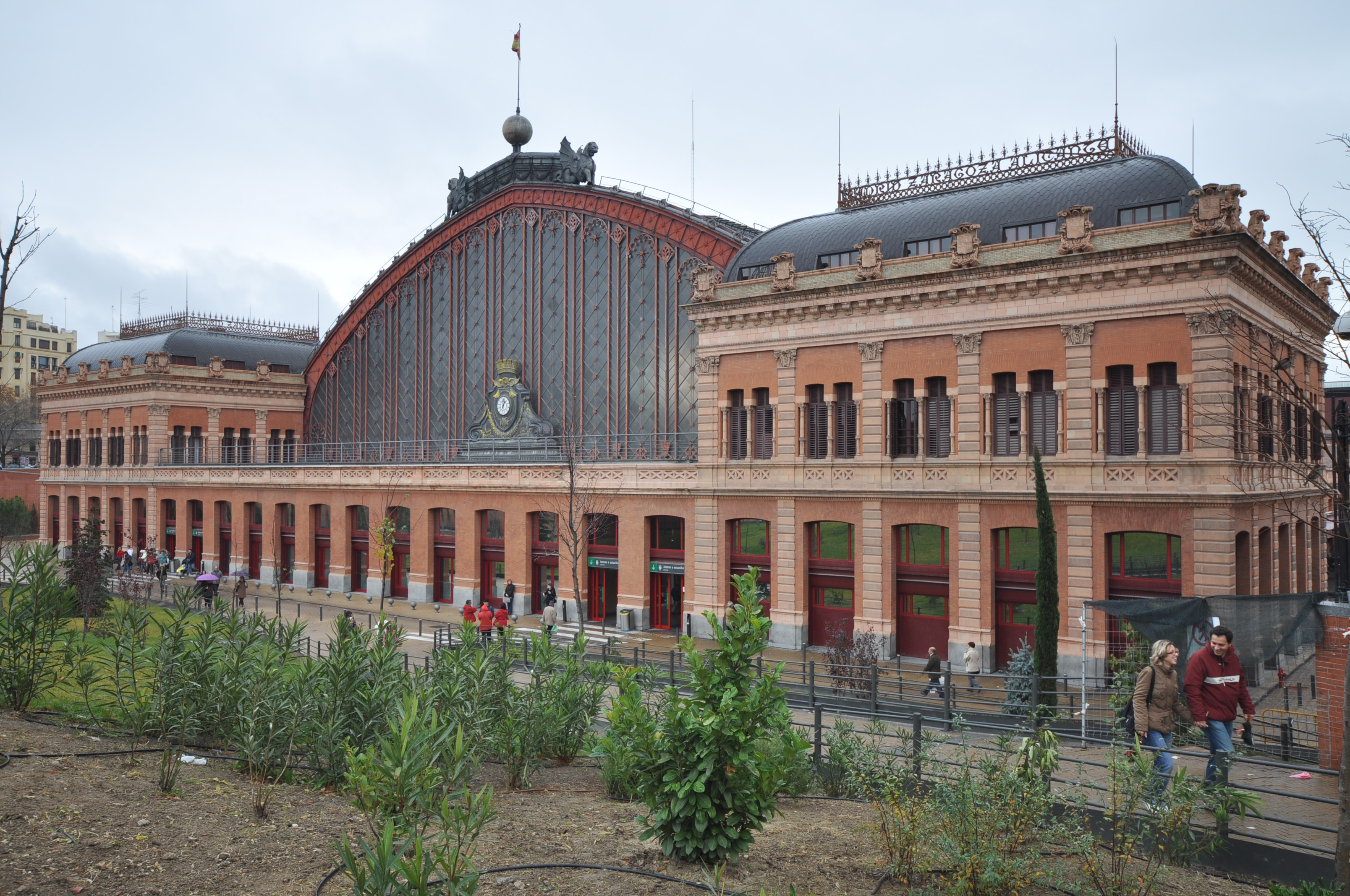 Atocha Station (Spanish: Estación de Atocha) is the largest railway station in Madrid. It is the primary station serving commuter trains (Cercanías), intercity and regional trains from the south, and the AVE high speed trains from Barcelona (Catalonia) and Seville (Andalusia). These train services are run by the Spanish national rail company, Renfe. The station was Madrid's first railway station. It was inaugurated on 9 February 1851 under the name Estación de Mediodía (Atocha-Mediodía is now the name of an area of the Arganzuela district, and means in old Spanish south). After the building was largely destroyed by fire, it was rebuilt and reopened in 1892. The architect for the replacement, in a wrought iron renewal style was Alberto de Palacio Elissagne, who collaborated with Gustave Eiffel. Engineer Henry Saint James also took part in the project. This old building was taken out of service in 1992 and converted into a concourse with shops, cafés, a nightclub, and a 4,000 m. covered tropical garden. A modern terminal by Rafael Moneo, designed to serve the new AVE trains to Seville, was added to the complex. The main lines end in the new terminal; commuter train platforms are located underground, at the ingress to a rail tunnel extending northward under the Paseo de la Castellana. The station, located on the Plaza del Emperador Carlos V, is served by two Madrid Metro stations, Atocha and Atocha Renfe. The latter was added when the new terminal building was constructed and is directly linked to the railway station. The Reina Sofa museum is in the vicinity of Atocha. The station was in the International Media because of the 11 March 2004 Madrid train bombings. On 10 June 2004 a virtual shrine was dedicated by the Spanish Minister of Transport. Visitors to the attacked stations can leave a hand silhouette and a message through special-purpose consoles. .